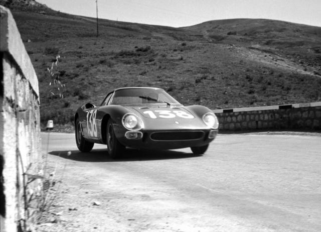 Entry #138 at Targa Florio on Sicily on 9 May 1965 was the 1964 Ferrari 250 LM s/n 5903 driven by Sergio Bettaja (owner), Andrea de Adamich and Mario Casoni. It was entered by the Jolly Club racing team. They did not finish because it bettery run out.[1]